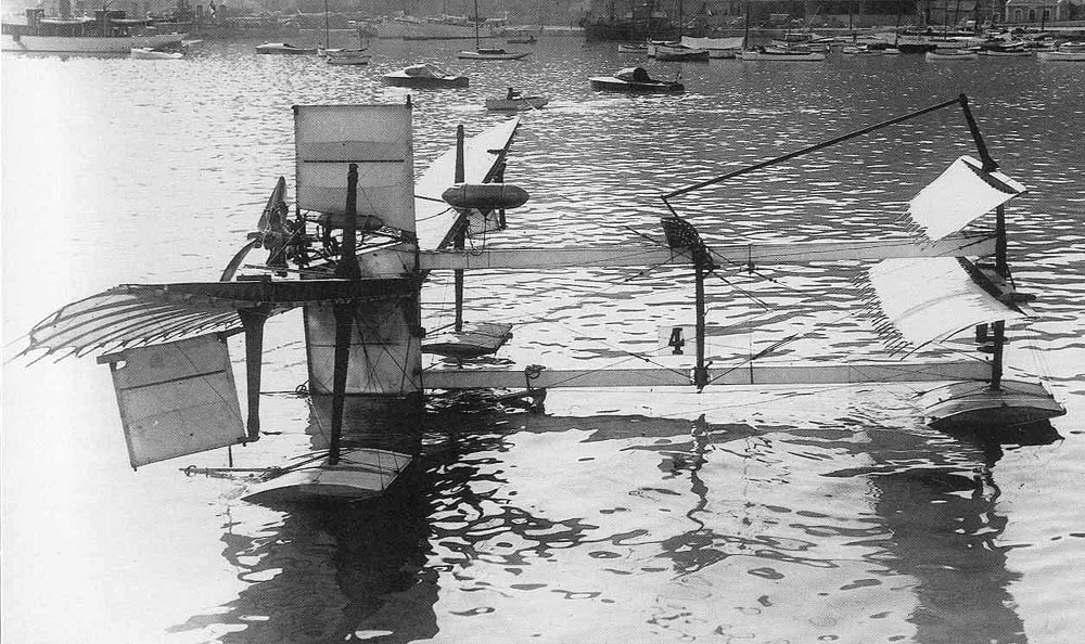 The Canard - Henri Fabre-1911